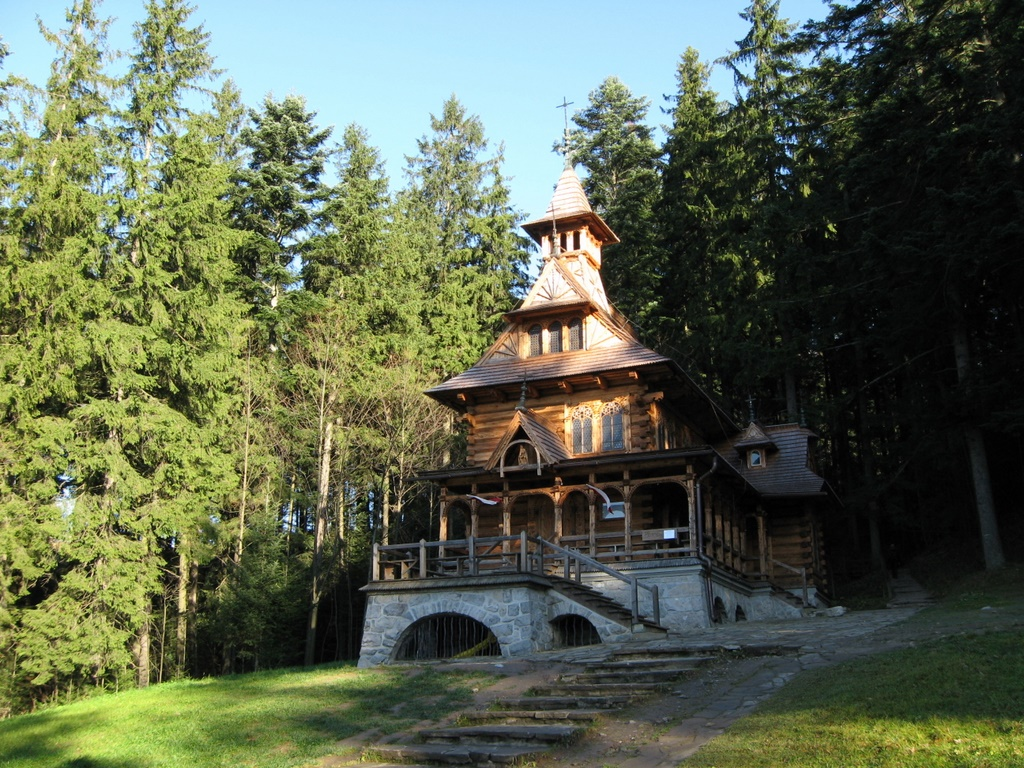 Chapel in Jaszczurówka, Zakopane, Poland